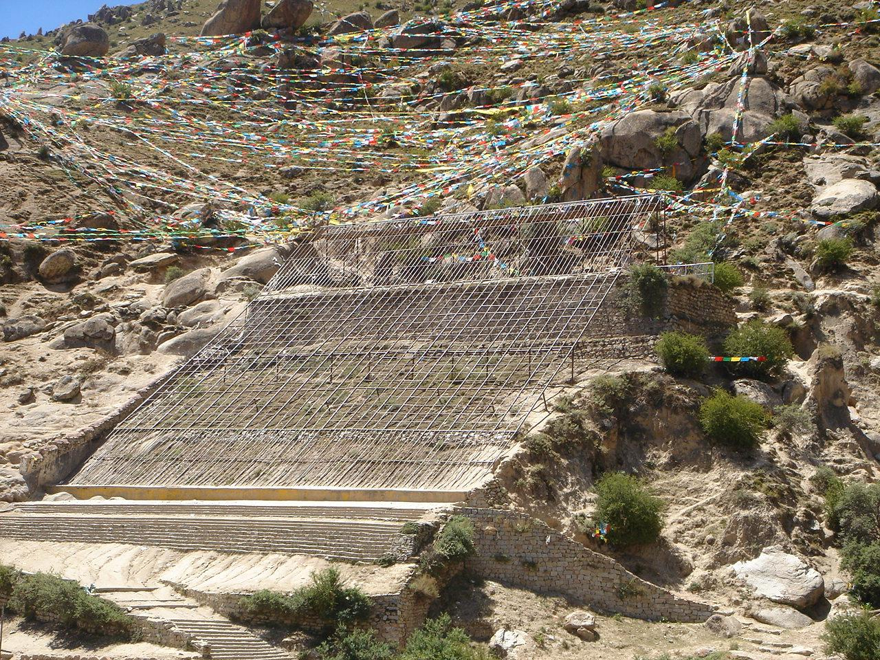 A show large Buhhda image platform beside Drepung temple